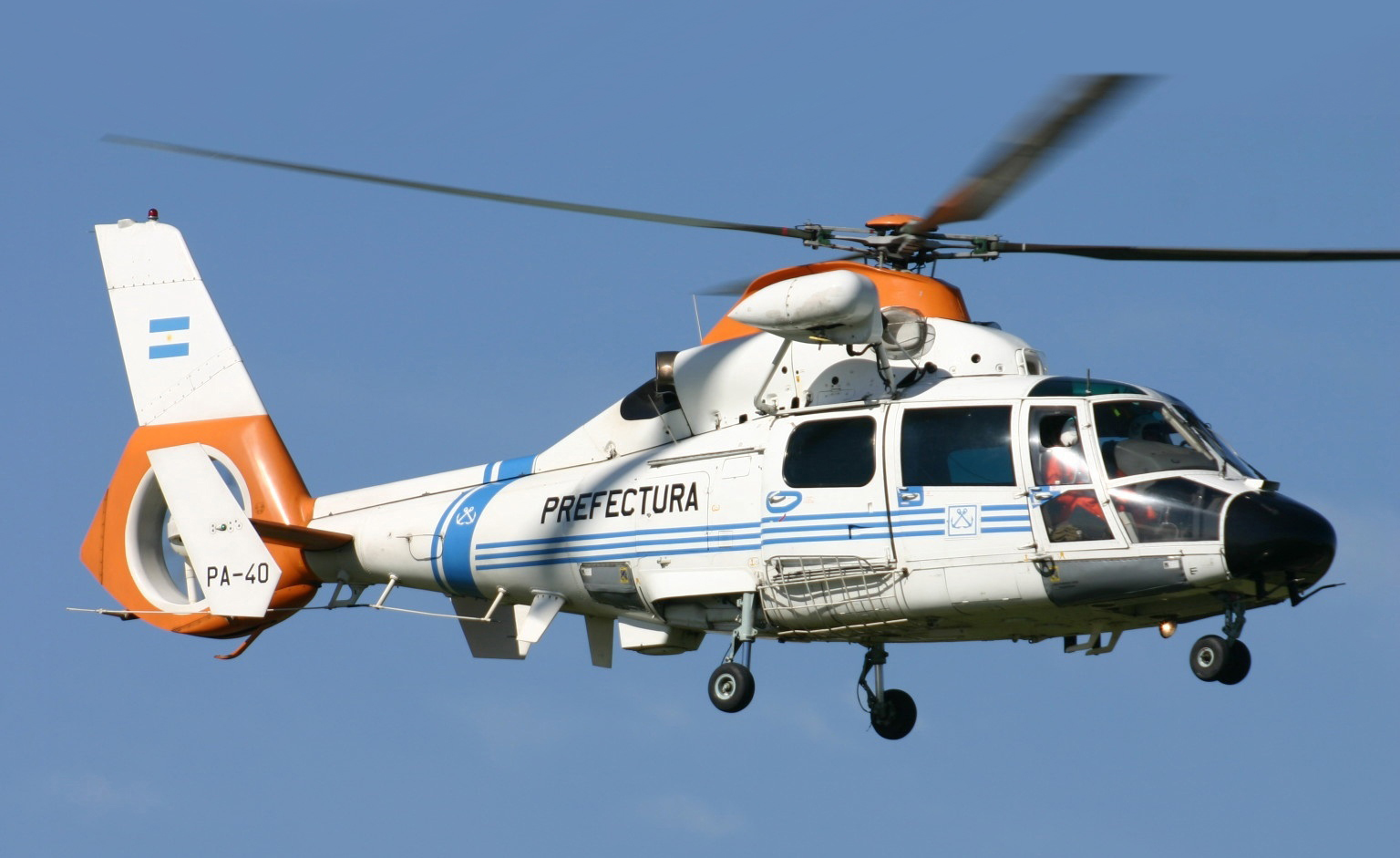 PA-40 AS.365 Dauphin Prefectura Naval Argentina